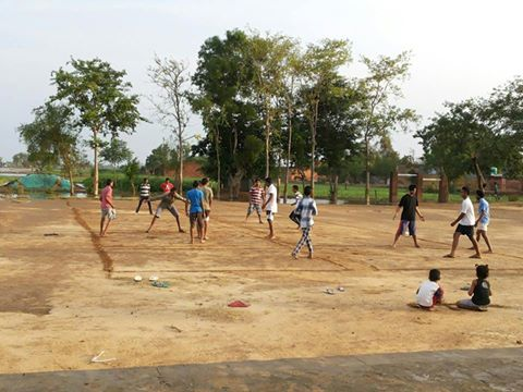 playground Other information no